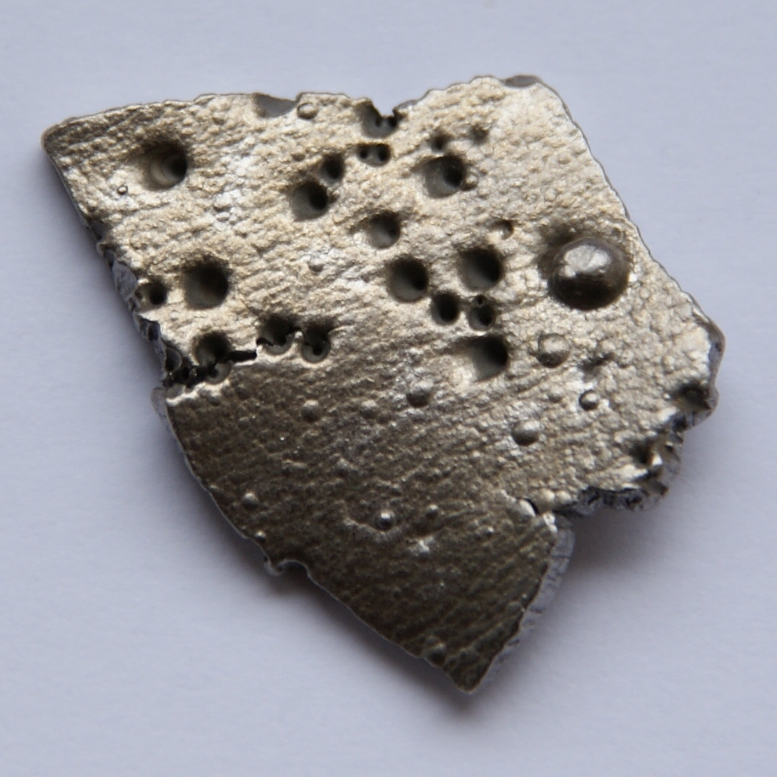 Cobalt is a ferromagnetic, ductile metal, which is very similar to iron, but is much rarer than this. It is used for magnets and for many different alloys. Cobalt blue, CoAl2O4, is one of the most important blue colorants for glas and ceramics. Also cobalt is part of the vitamin B12 and therefore is needed in small amounts in our food.